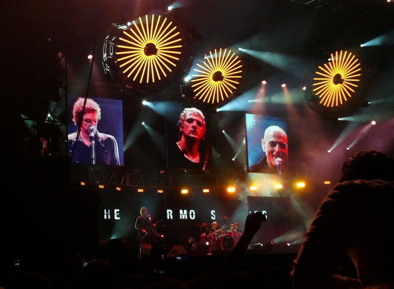 Leve modificación de una foto de Soda Stereo en 2007.